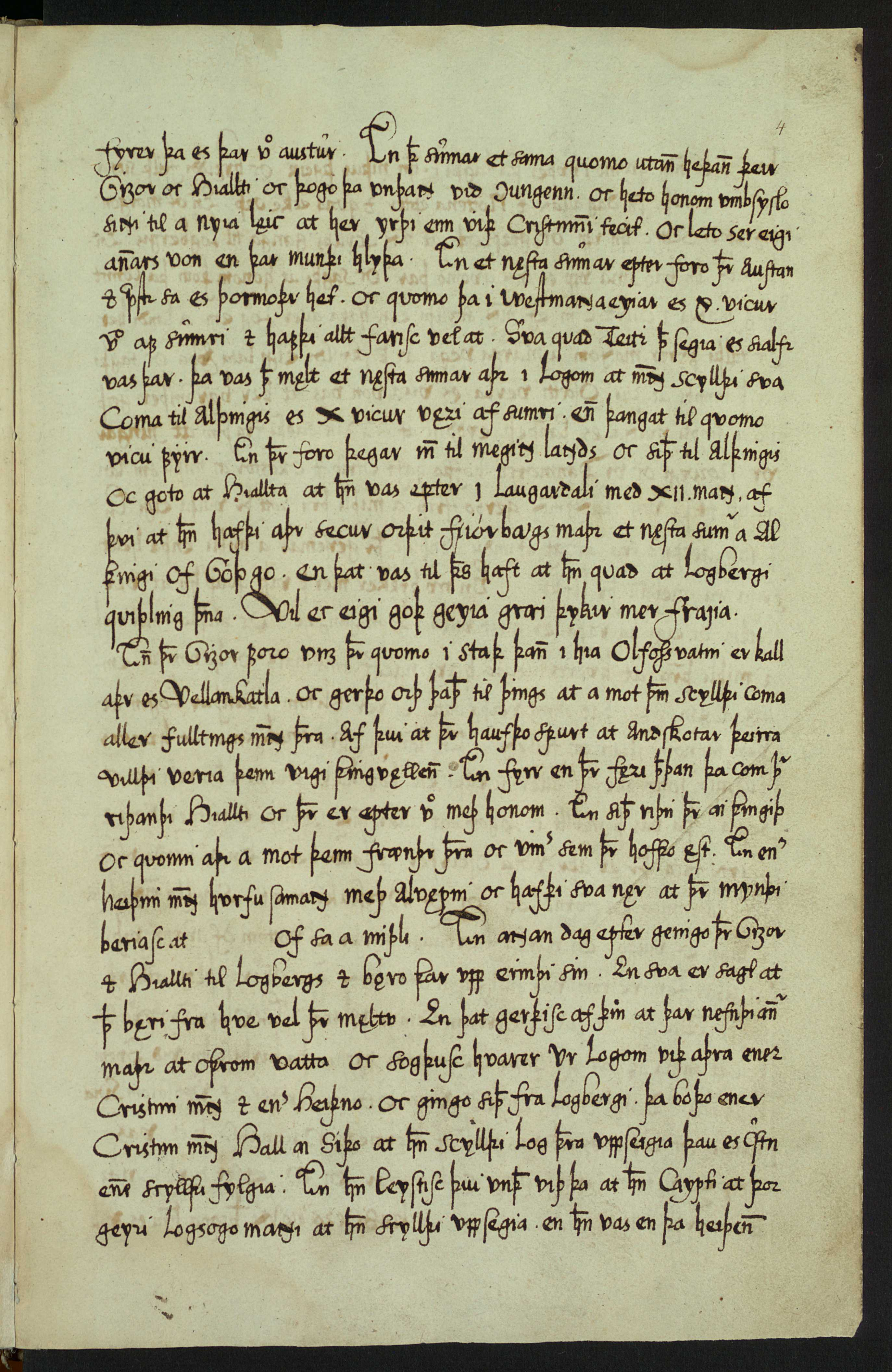 Copy of Íslendingabók by Jón Erlendsson, stored at Árni Magnússon Institute (page 11/25)